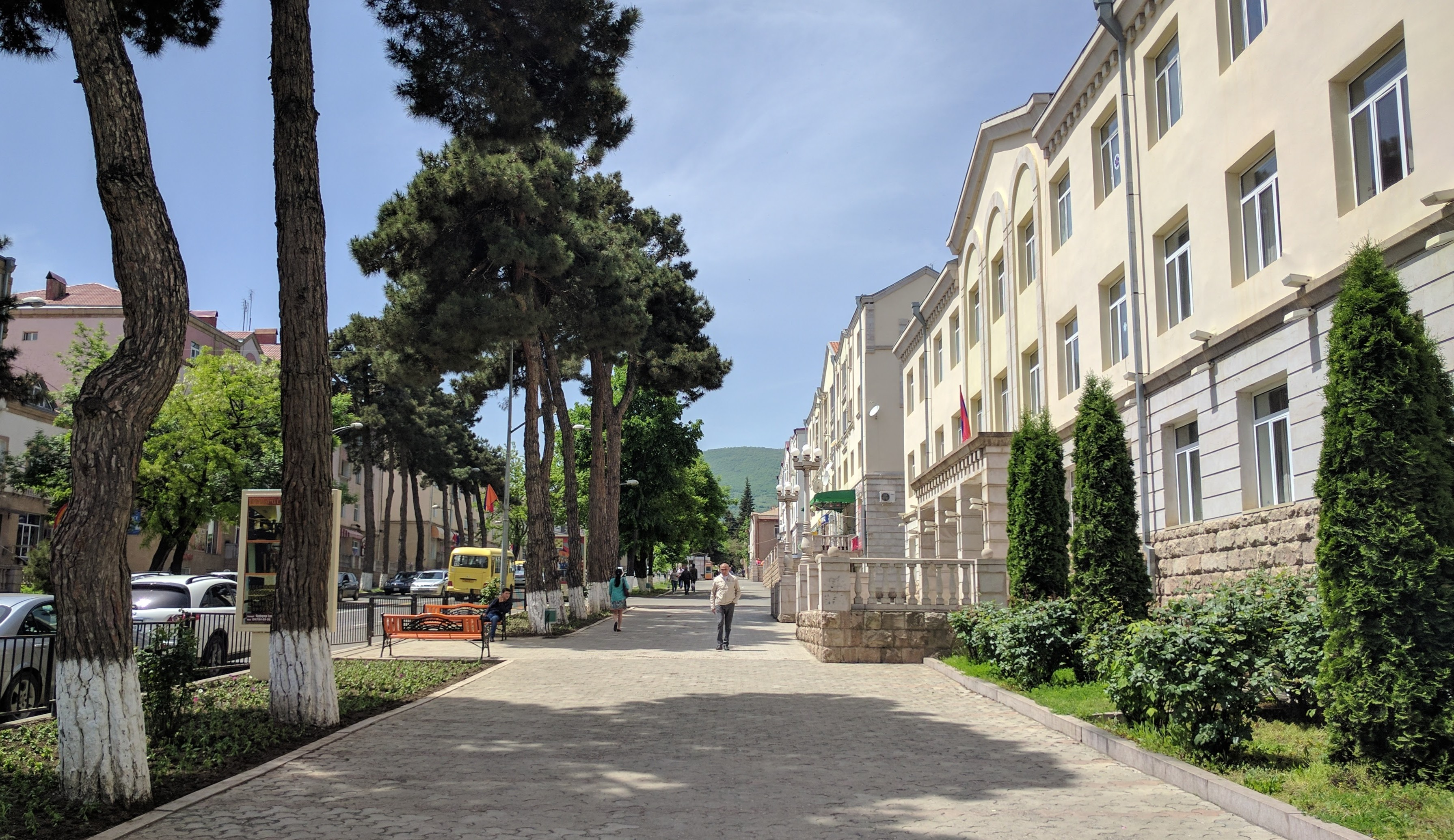 Azatamartikneri boulevard, Stepanakert, Republic of Artsakh